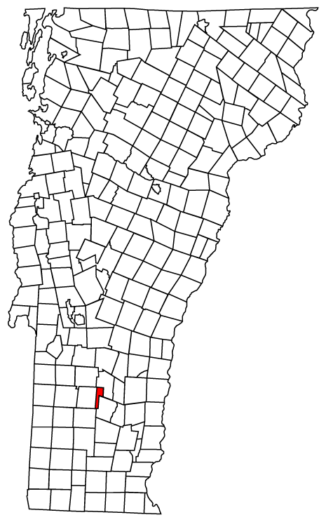 Description: Map of Vermont towns with Landgrove highlighted Source: Map created by Jared C. Benedict on 26 March 2004. Copyright: © Jared C. Benedict.